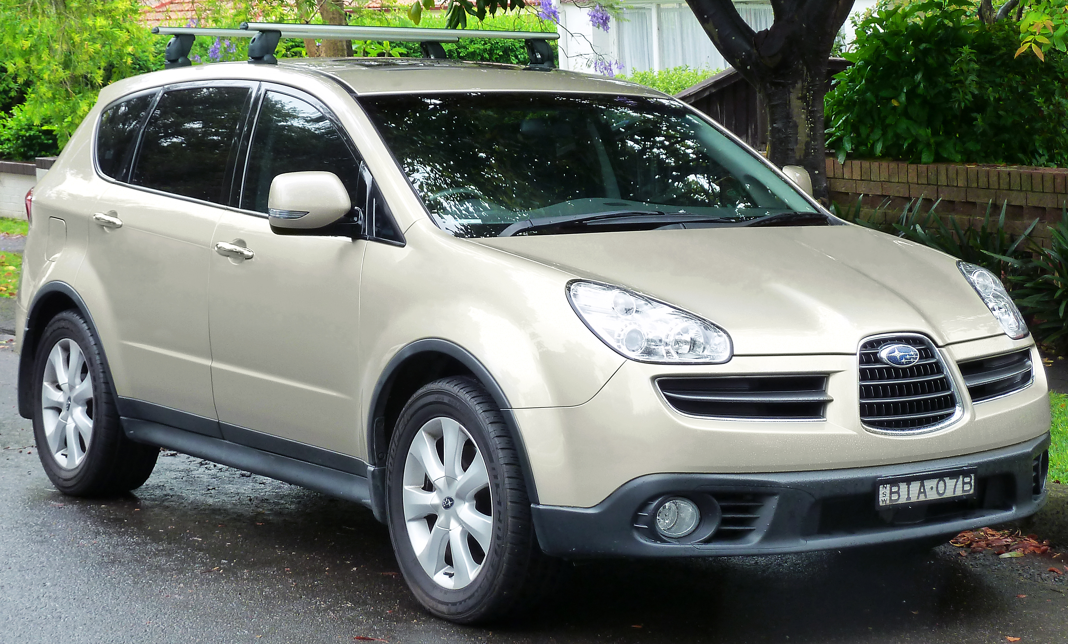 2006–2007 Subaru Tribeca (B9 MY07) R Premium Pack wagon. Photographed in East Lindfield, New South Wales, Australia.